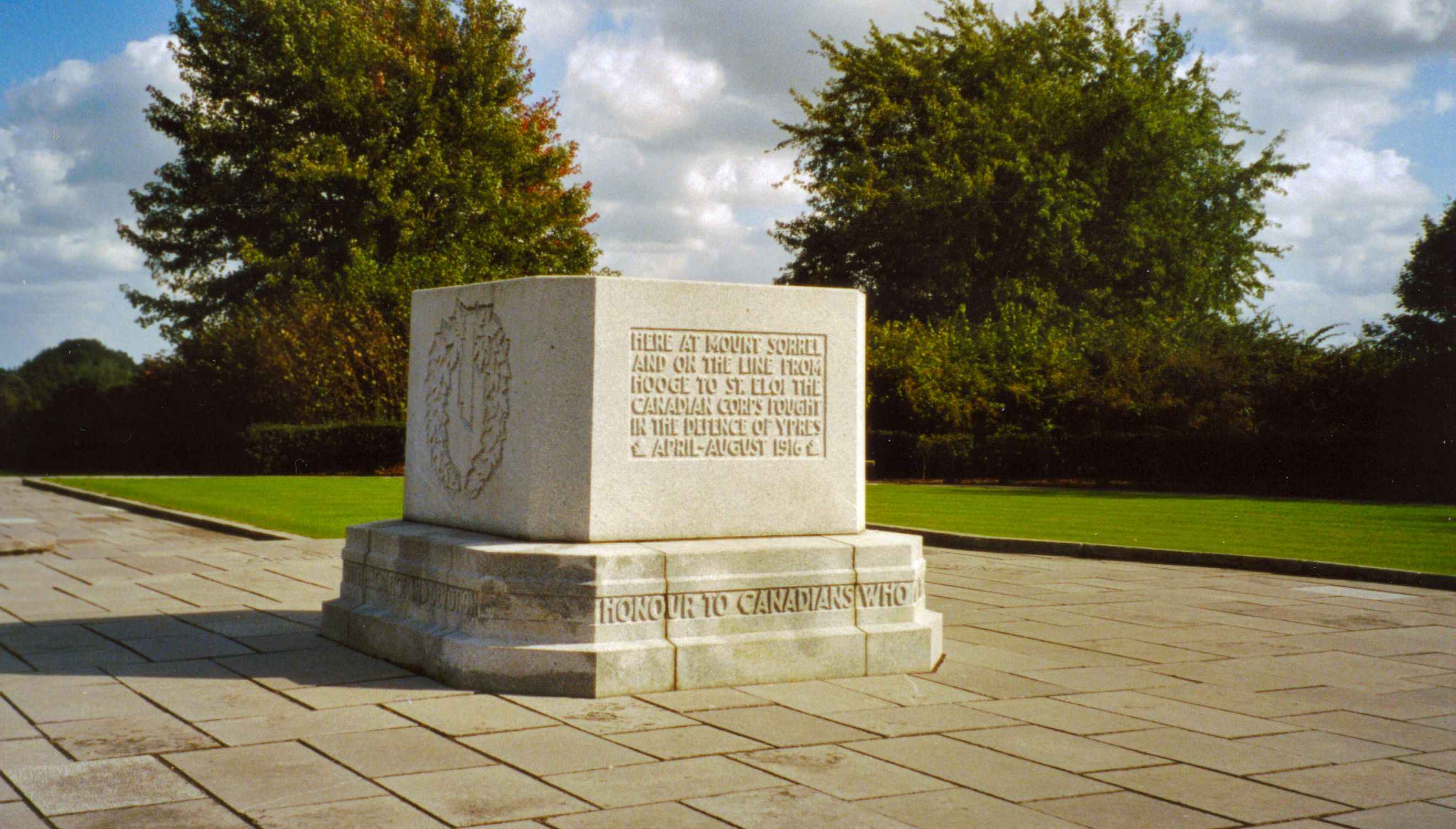 The Canadian Memorial at Hill 60, outside Ypres, Belgium.